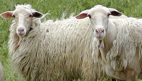 Cropping of common's File:Toscana Schafe.jpg by Kofler Jürgen released under Creative Commons Attribution-Share Alike 3.0 Unported